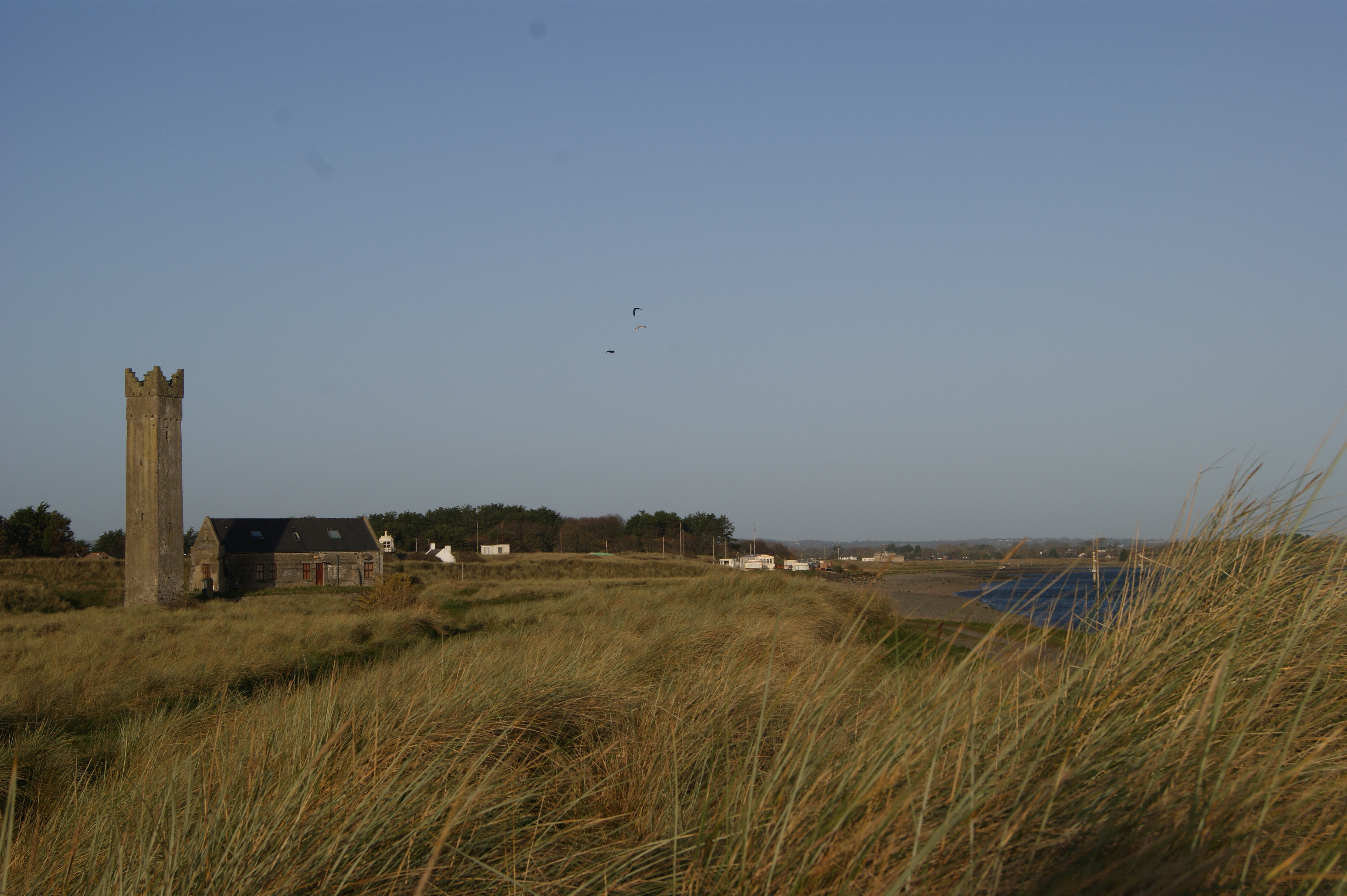 Mornington (Co. Meath): Maiden Tower